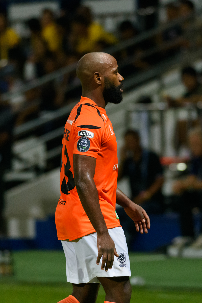 Lossémy Karaboué during the Thai FA Cup Final 2019 vs Port FC